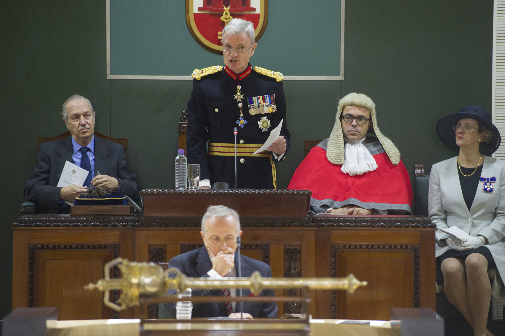 The new governor of Gibraltar, James Dutton.